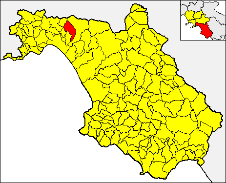 Locator map of the municipality of Giffoni Sei Casali (red) within the Province of Salerno